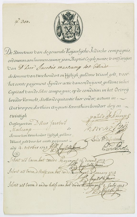 Upper left hand corner share number 4527 in manuscript. In top emblem of the Ostend Company in copper engraving. Text: De Directeurs van de generale Keijserlijche- Indische compagnie, ordoneren aen hunnen cassier 'joan Baptist Cogels junior, te ontvangen van D'Heer Ferdinand Anthoin Baron de Veecquemans, Antwerp. de somme van tweehondert en vijftigh guldens wisselgeldt, voor het eerste payement sijnder actie van een duijsent guldens in het Capitael van de Selve compagnie, op de conditien in het Octroij breeder vermeldt, stellen de quitanfie hier onder, actum in Antwerpen derthien augustus seventhienhondert dry en twintigh. Ontvangen van De Heer Melchior Breton de somme van tweehondert vijftigh guldens wissel gelt voor het eerste paijment ady 6 september 1723 (signatuur) Solvit als boven het tweede payement 16 december 1723 (signatuur) Solvit als boven d helft van het derde payement 22: November 1724 (signatuur) Solvit als boven de helft van het derde payement 3 July 1725. -etc.